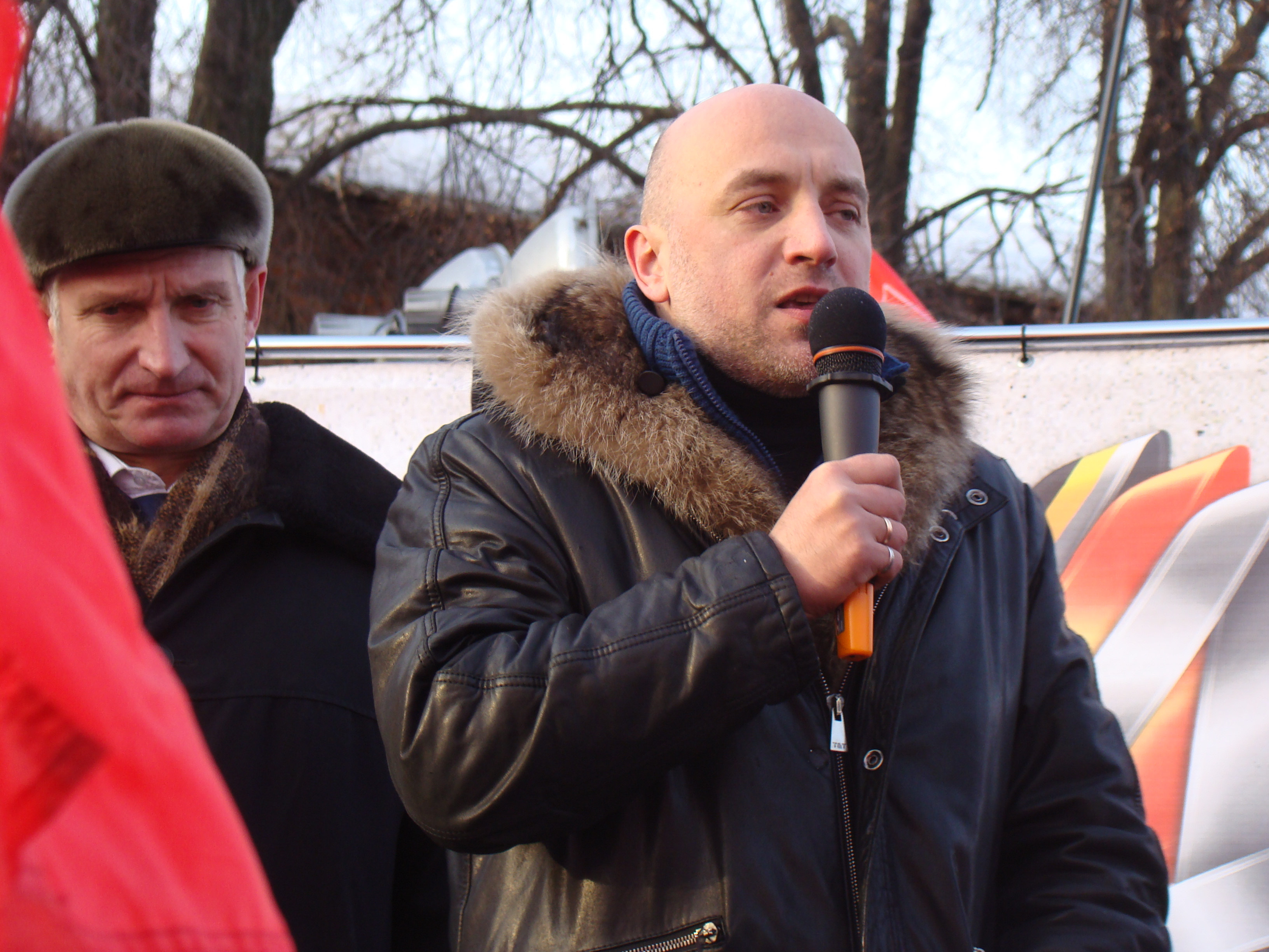 Nikolay Ryabov and Zakhar Prilepin on tribune, Nizhny Novgorod rally 4 February 2012